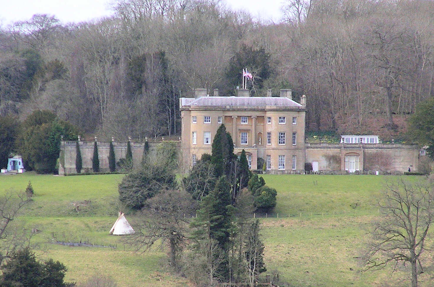 American Museum The American Museum in Britain located 4 miles east of Bath opened to the public in 1961. Built about 1820 and was called Claverton Manor On 26 July 1897 when he was 23, Winston Churchill made his first political speech here.